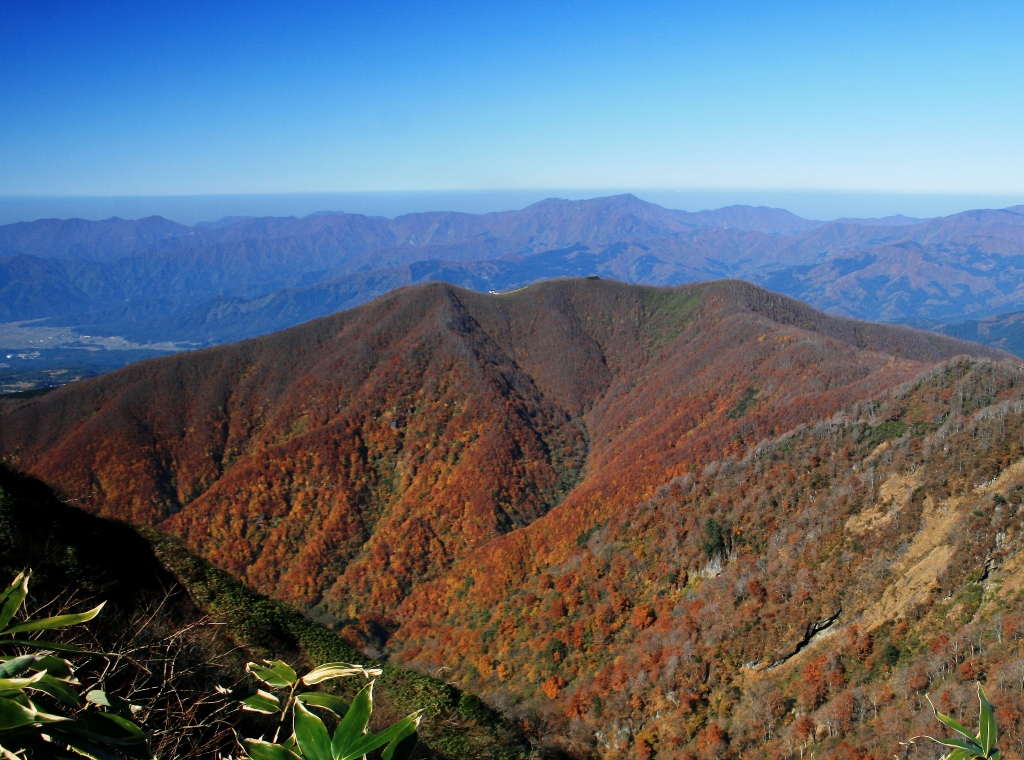 Mount Hōonji seen from Mount Kyō, in Ryōhaku Mountains, Japan.